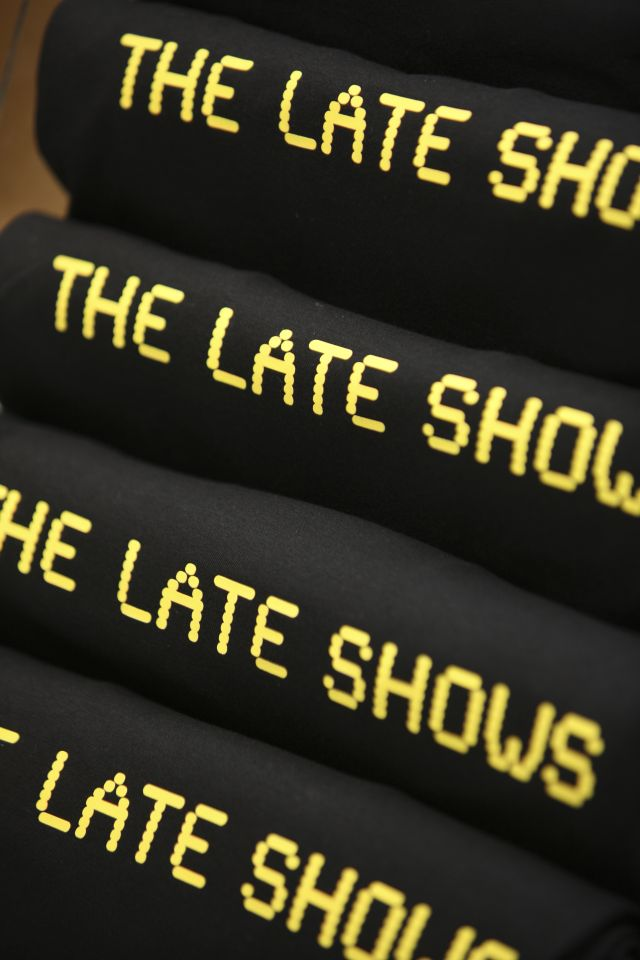 The Late Shows on teeshirts